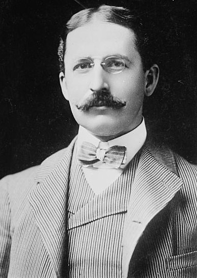 John Elbert Wilkie (1860 – 1934), American journalist, head of the United States Secret Service